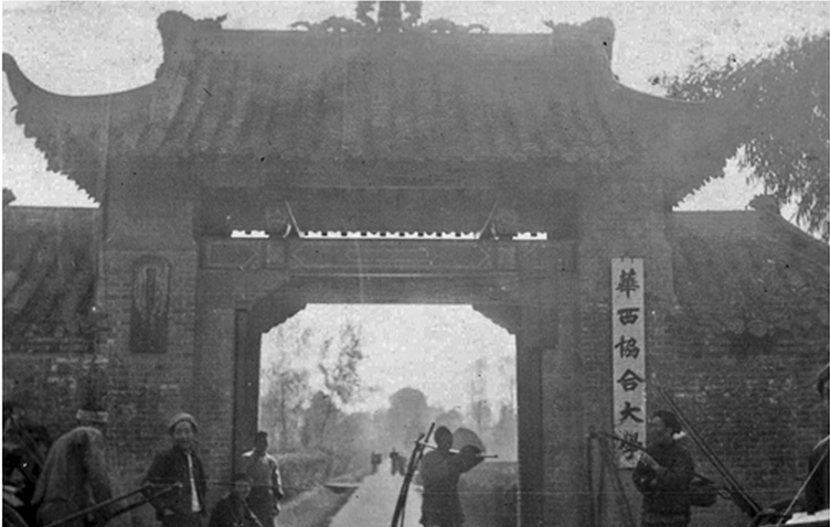 the gate of West China Union University in the 1920's